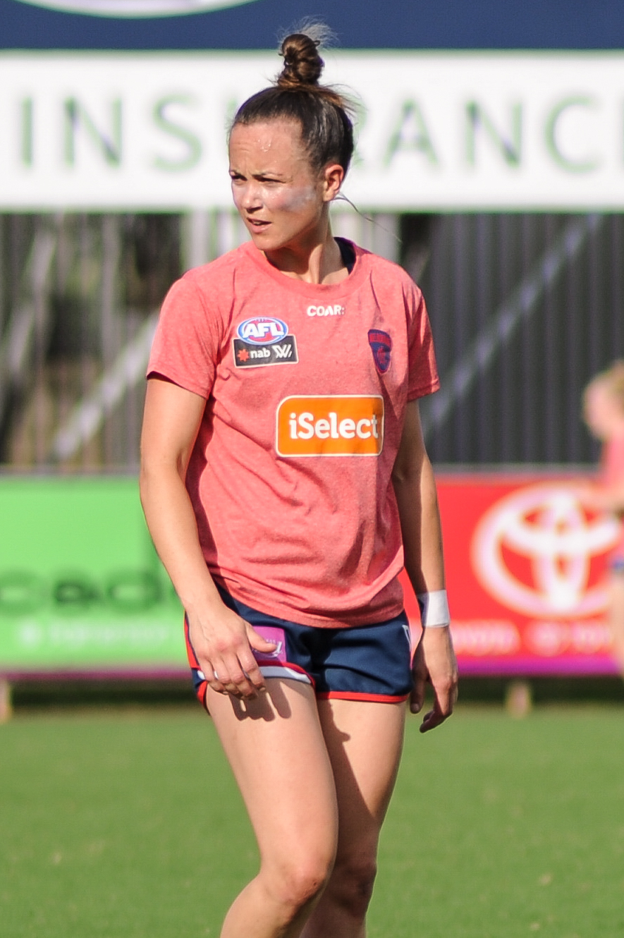 Daisy Pearce warming up prior to the AFL Women's round six match between Adelaide and Melbourne on 11 March 2017 at TIO Stadium in Darwin, Northern Territory